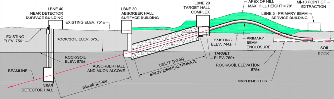 An image from the Proceedings of IPAC2012, New Orleans, Louisiana, USA, pages 451-453. Copyright 2012 by IEEE – cc Creative Commons Attribution 3.0 (CC BY 3.0). Longitudinal section of the Long Baseline Neutrino Experiment (LBNE, currently known as Deep Underground Neutrino Experiment) Beamline facility in the MI-10, Shallow beamline configuration.